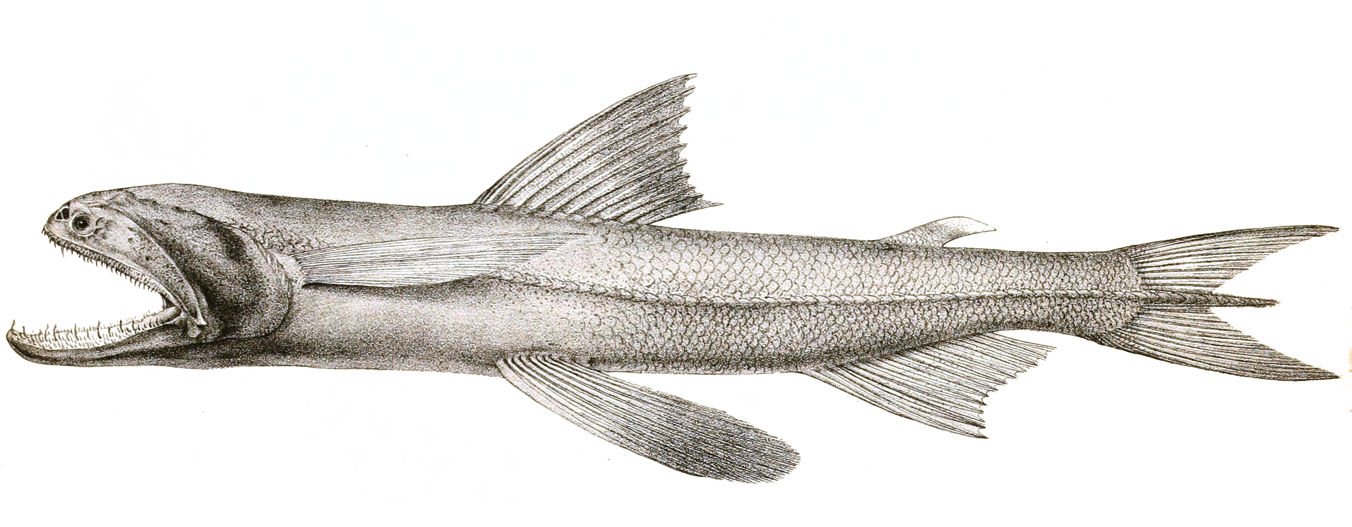 The species names / identity need verification - original names from plate are included here. The original plates showed the fishes facing right and have been flipped here. Harpodon nehereus